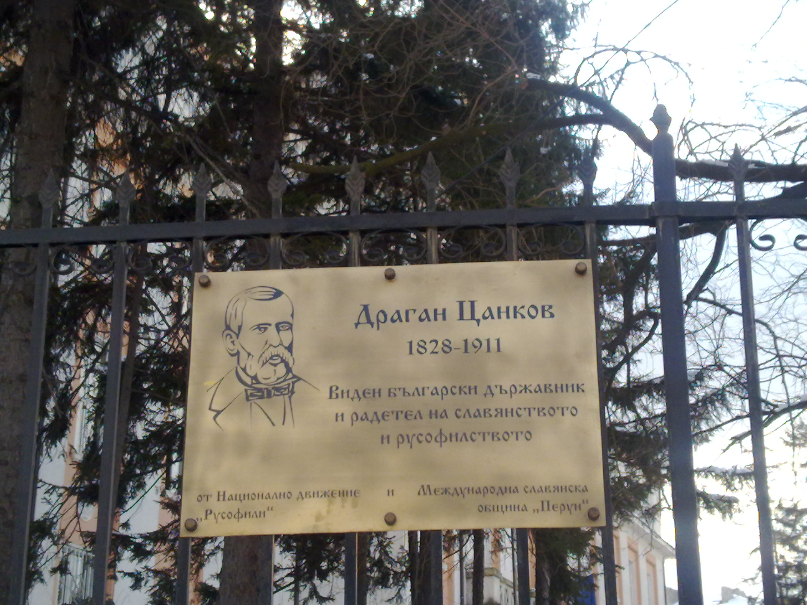 Dragan Tsankov Commemorative Plaque in Sofia put by the organizations "Rusofili" and "Perun"